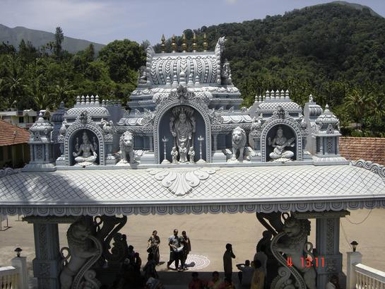 Mahadwara (main door) of Annapoorneshwari Temple in Horanadu, Karnataka